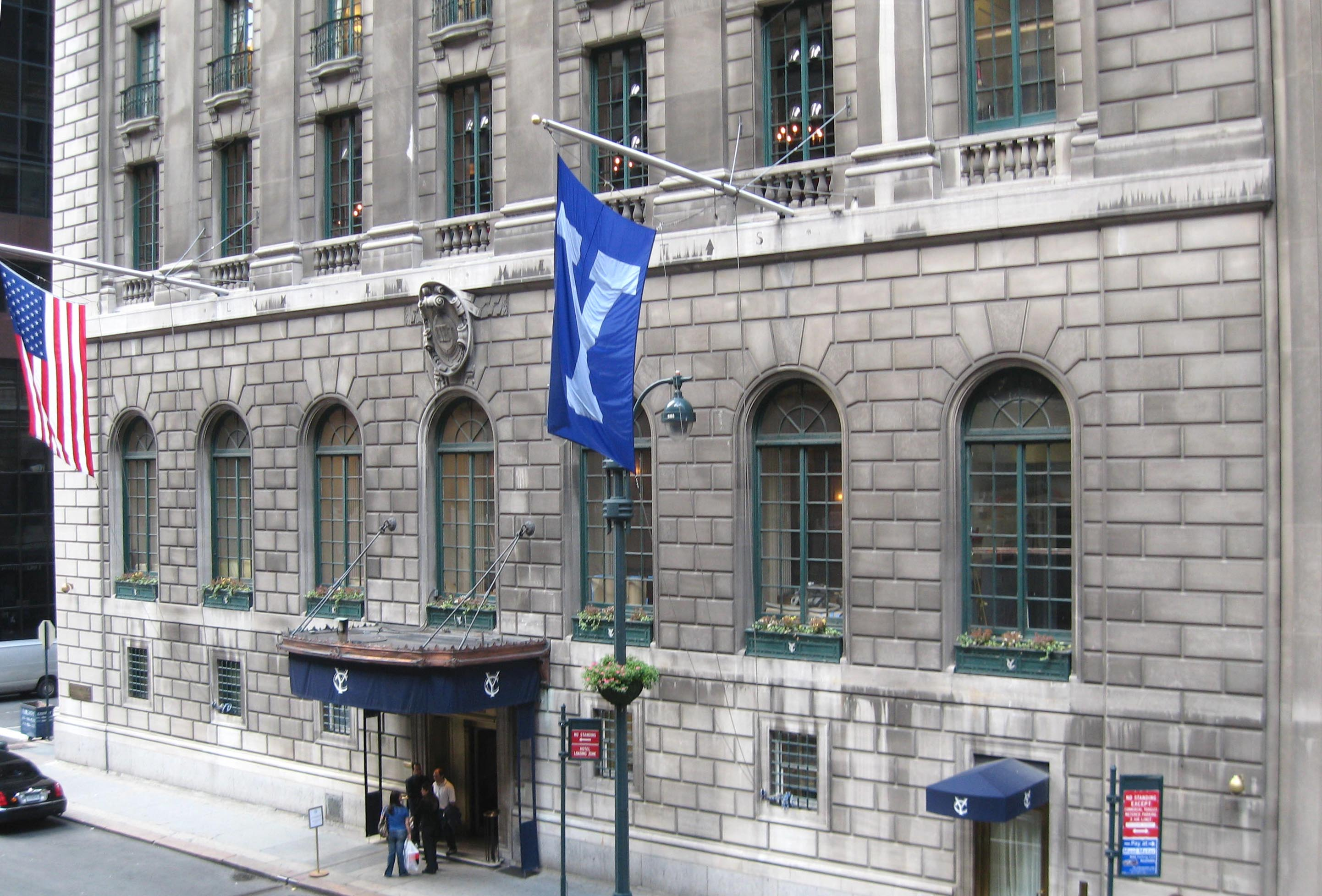 Looking southwest across Vanderbilt Avenue, from viaduct level of Park Avenue, at Yale Club of New York City on a sunny midday